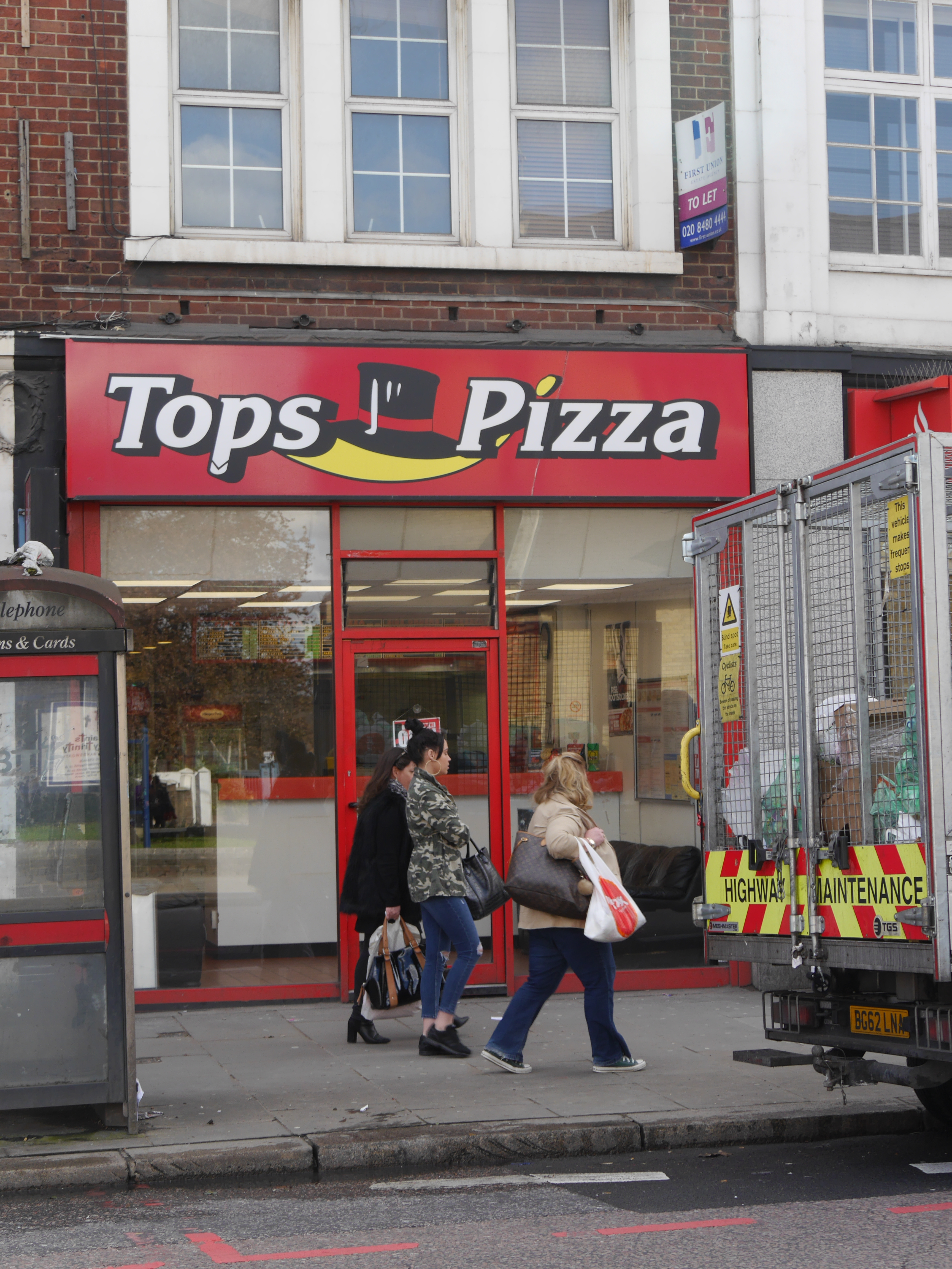 Wandsworth High Street